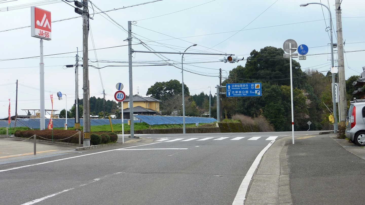 Miyazaki Prefectural Road No.40 Tsuno-Aya Line (Yatsushiro-Minamimata, Kunitomi Town, Miyazaki Prefecture, Japan)